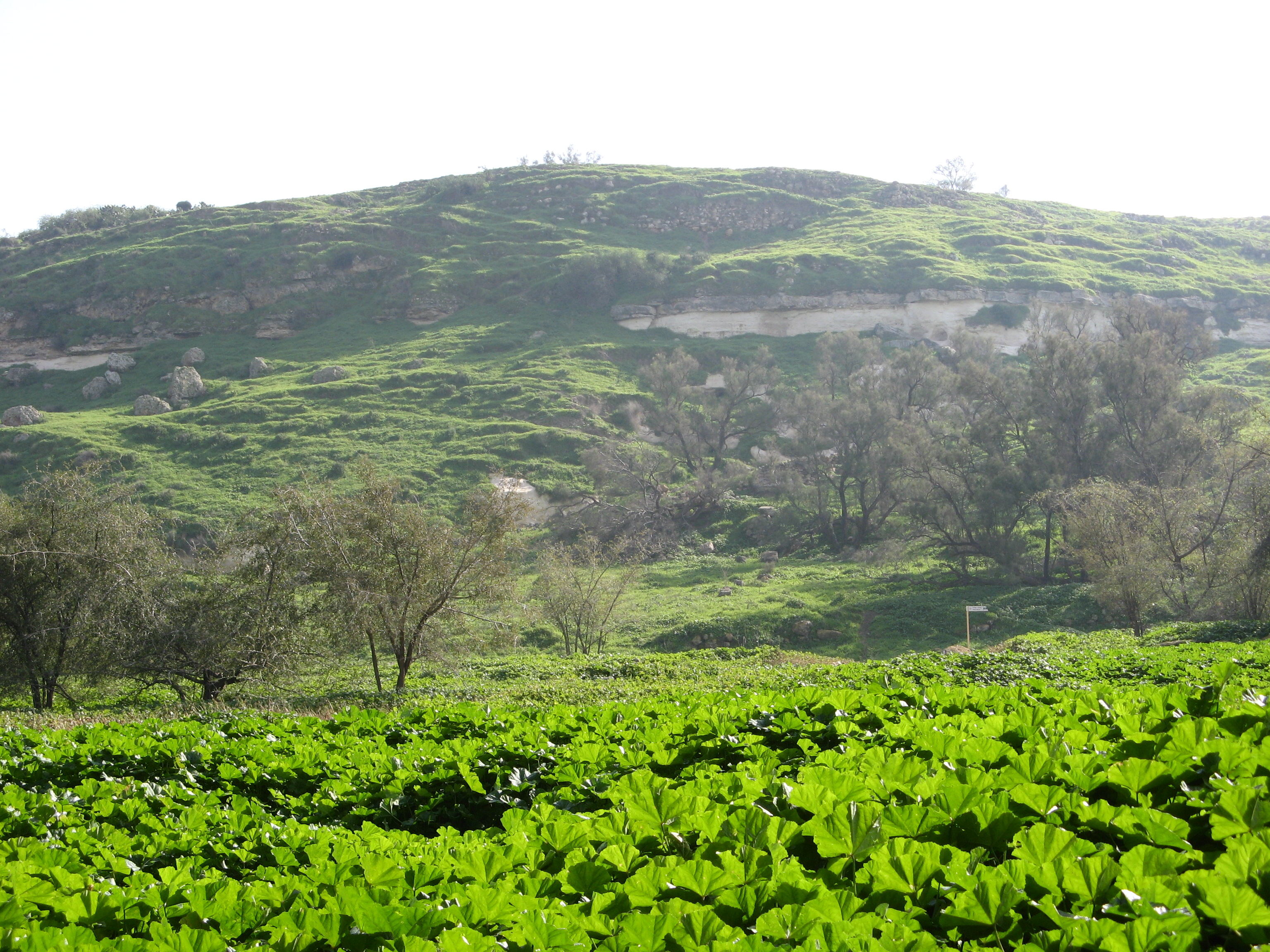 Tel Zafit